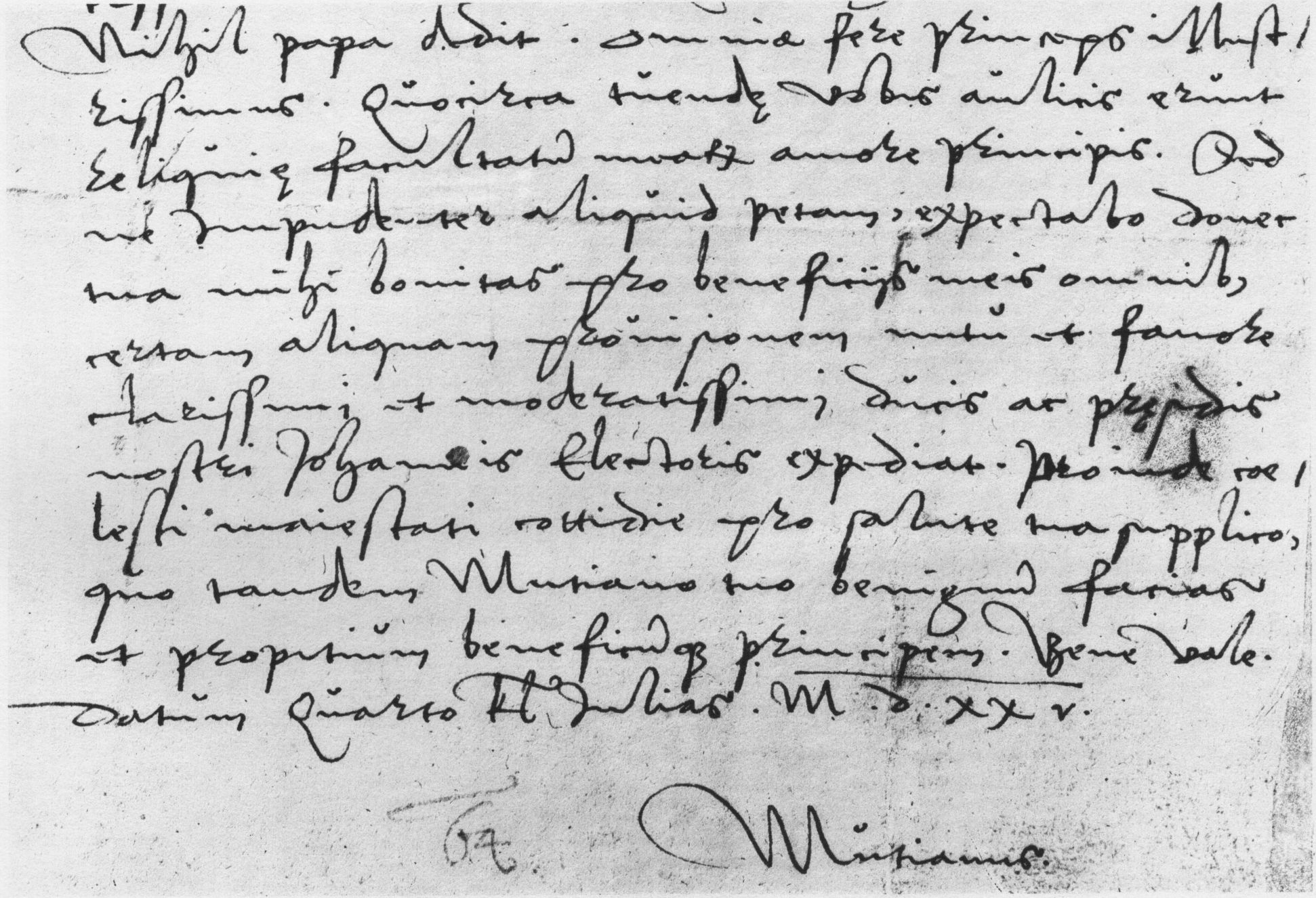 Part of a letter of Konrad Mutian (Mutianus Rufus), original. Nuremberg, Germanisches Nationalmuseum, Nr. 48.